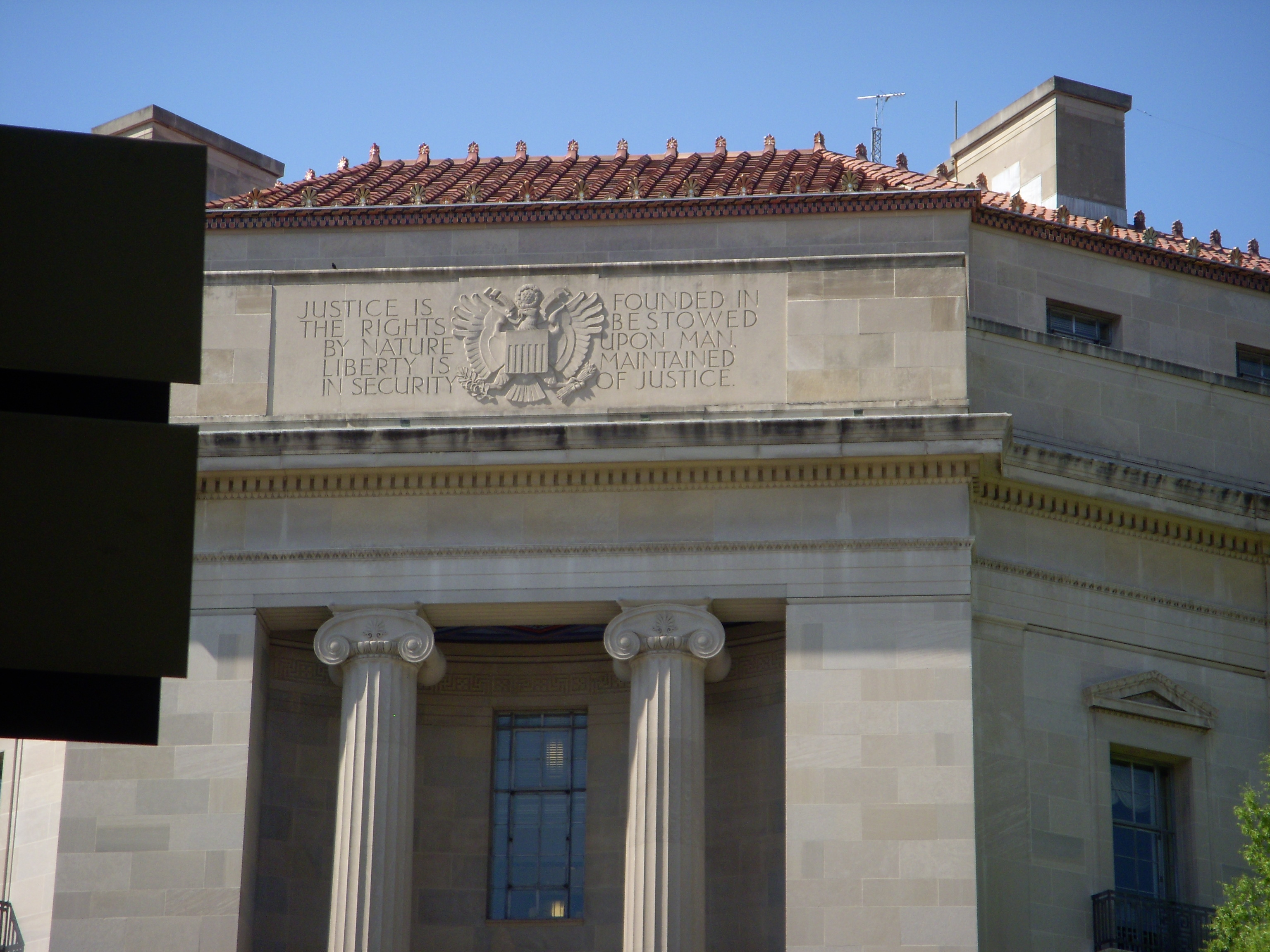 An image of the Robert F. Kennedy Department of Justice Building